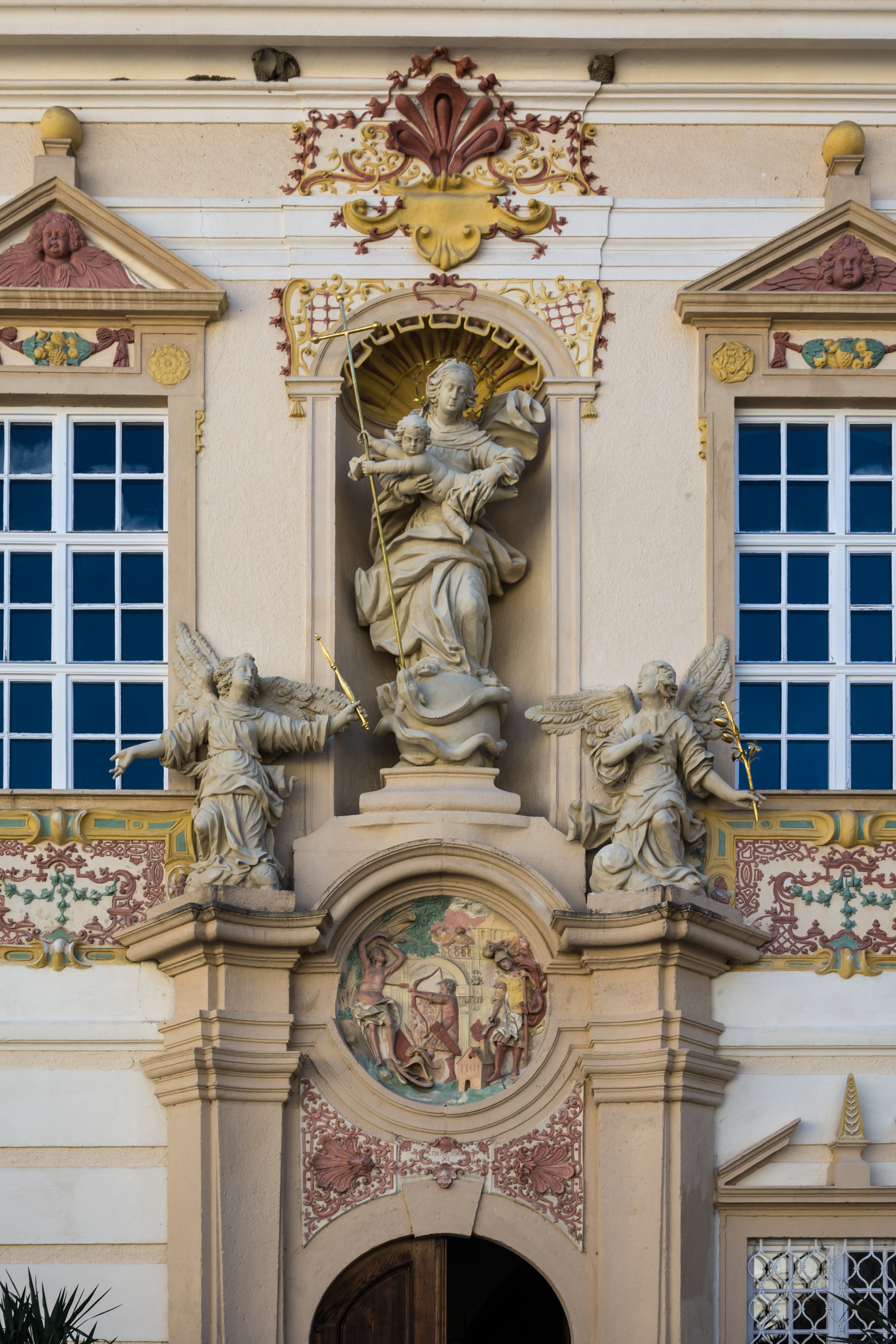 Portal of Zwettl Abbey, Lower Austria